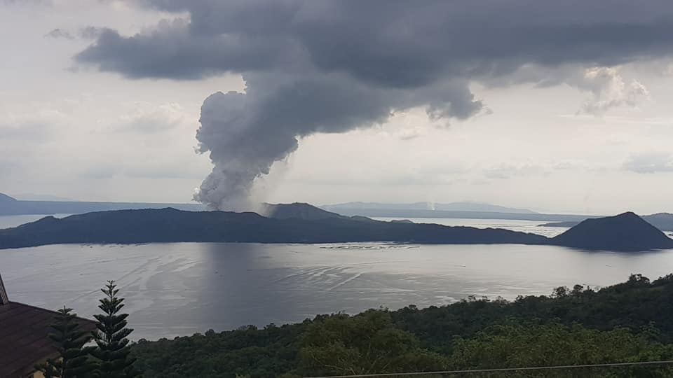 Phreatic volcano explosion of Taal Volcano, 12 January 2020 Tagalog: Malakas na pagsabog ng Buklang Taal, ika-12 ng Enero, 2020